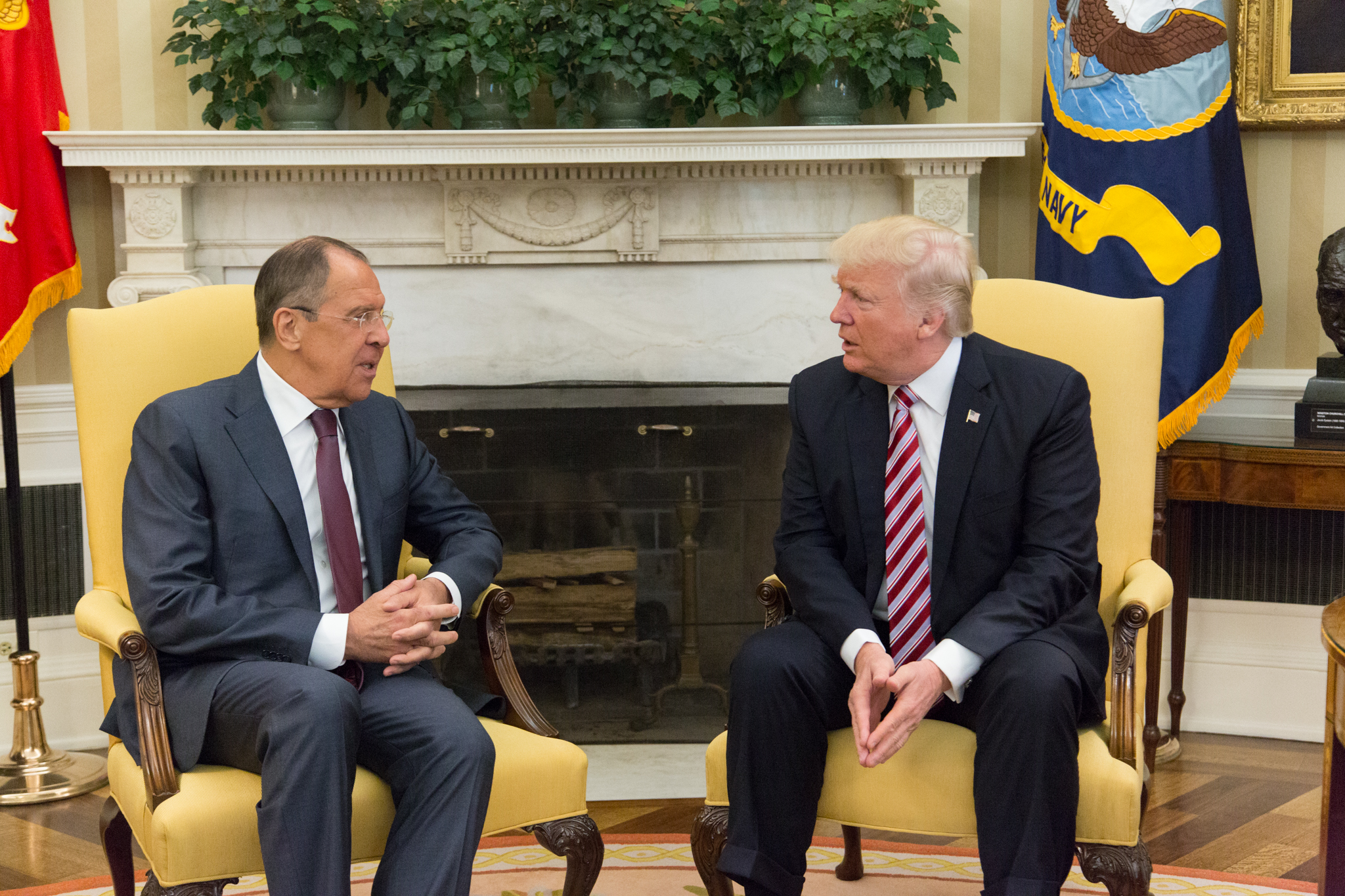 President Donald Trump speaks with Russian Foreign Minister Sergey Lavrov in the Oval Office, Wednesday, May 10, 2017, at the White House in Washington, D.C. (Official White House Photo by Shealah Craighead)